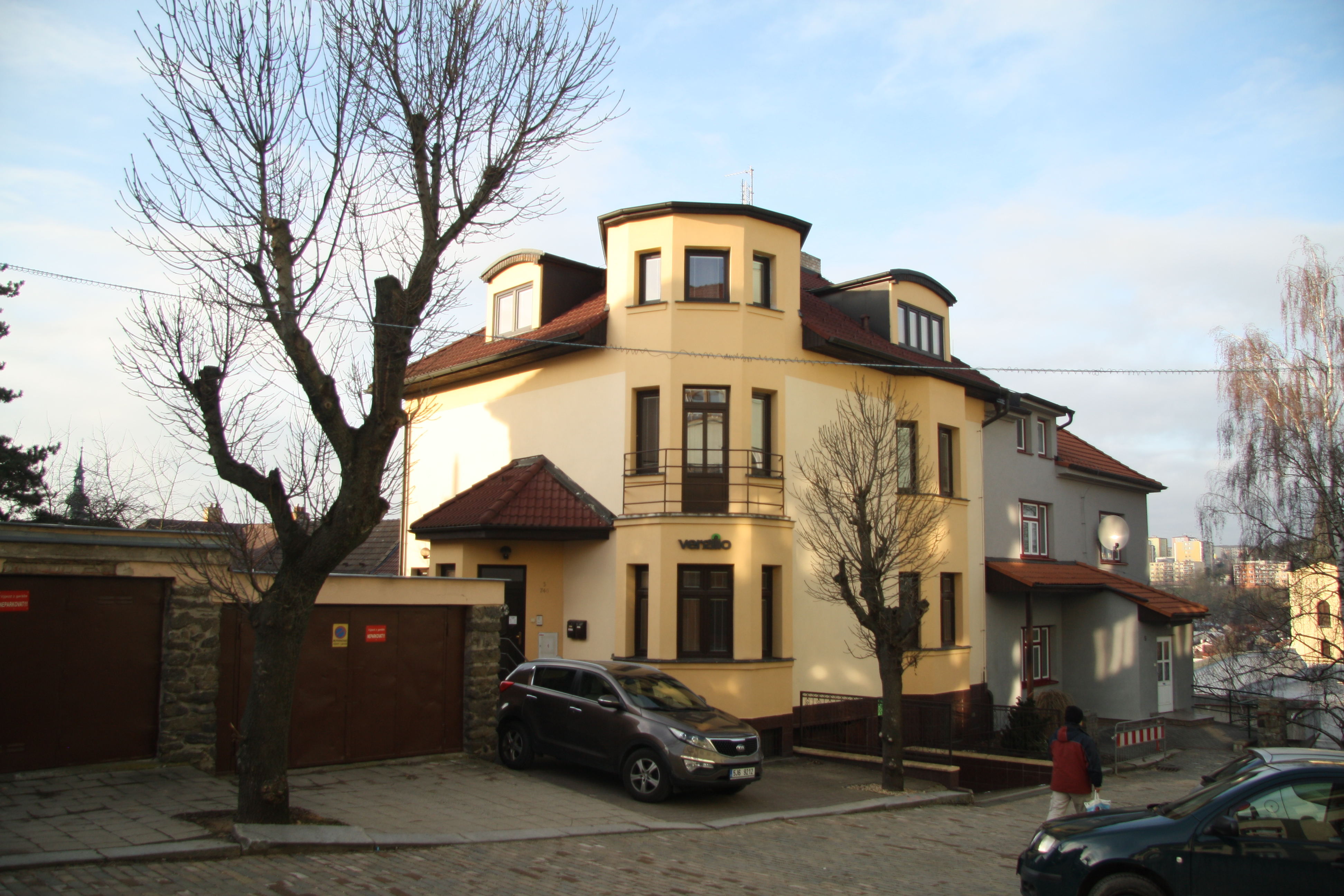 Overview of Jízdomat.cz office in Třebíč, Třebíč District.